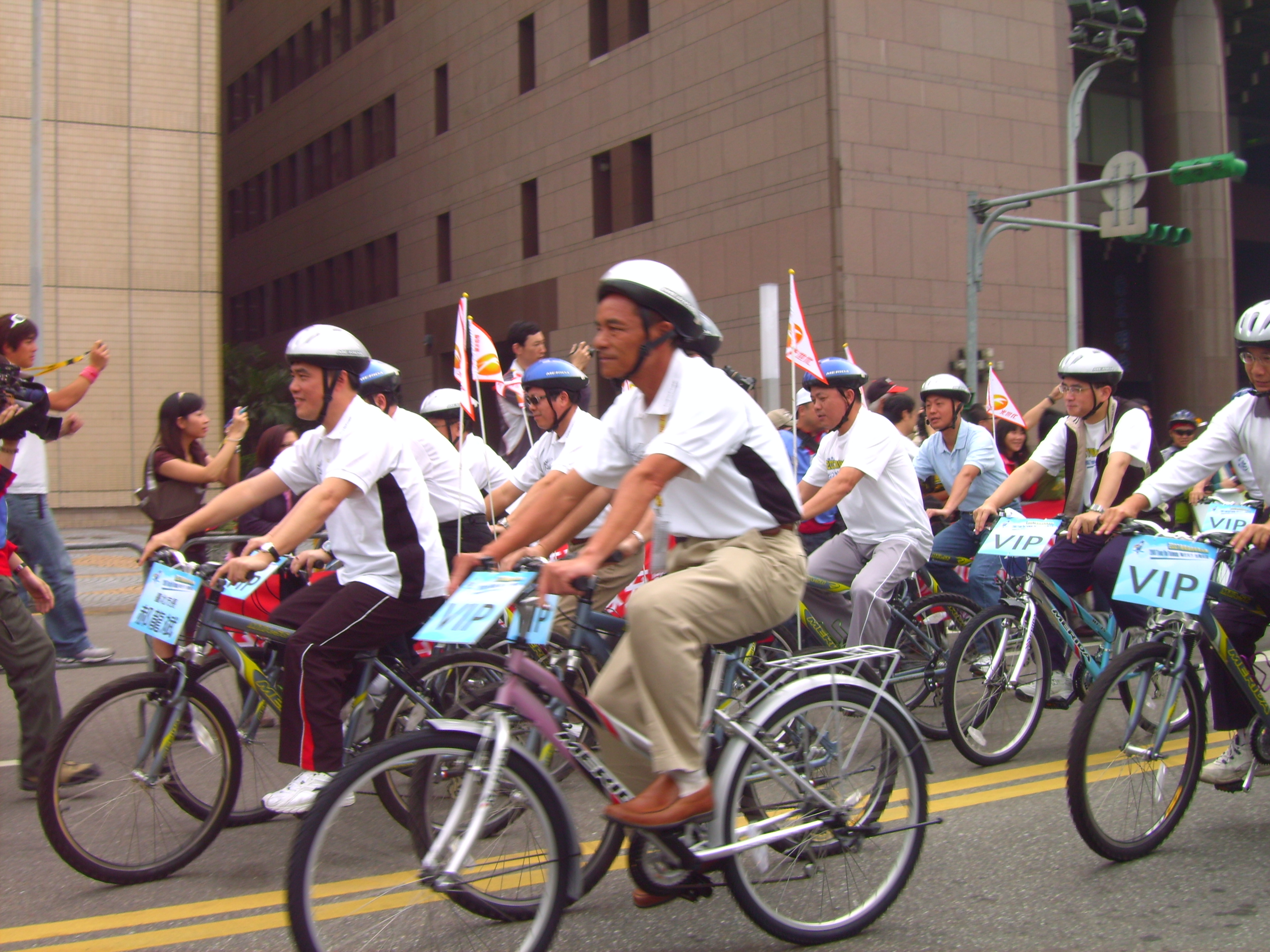 Tour de Taiwan 2007: VIPs' lead-riding.